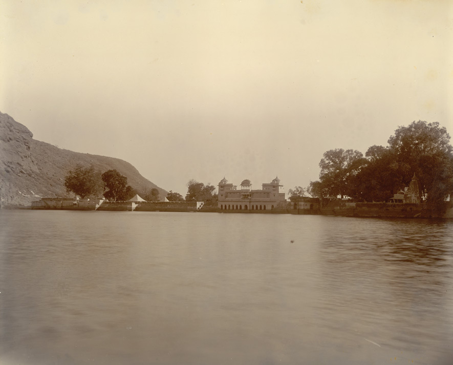 This is a cropped (by 50%) and reduced (by 20%) version of the photograph "Sukh Mahal building, on the bank of Jaitsagar Tank, Bundi." of the Sukh Niwas Palace on the edge of the Jait Sagar tank at Bundi, Rajasthan by Gunpatrao Abajee Kale, c.1900. It was used as a summer palace by the Maharajas of Bundi State and was the scene of festival processions. Rudyard Kipling stayed in the Sukh Niwas Palace and got inspiration for his book 'Kim' during his stay.